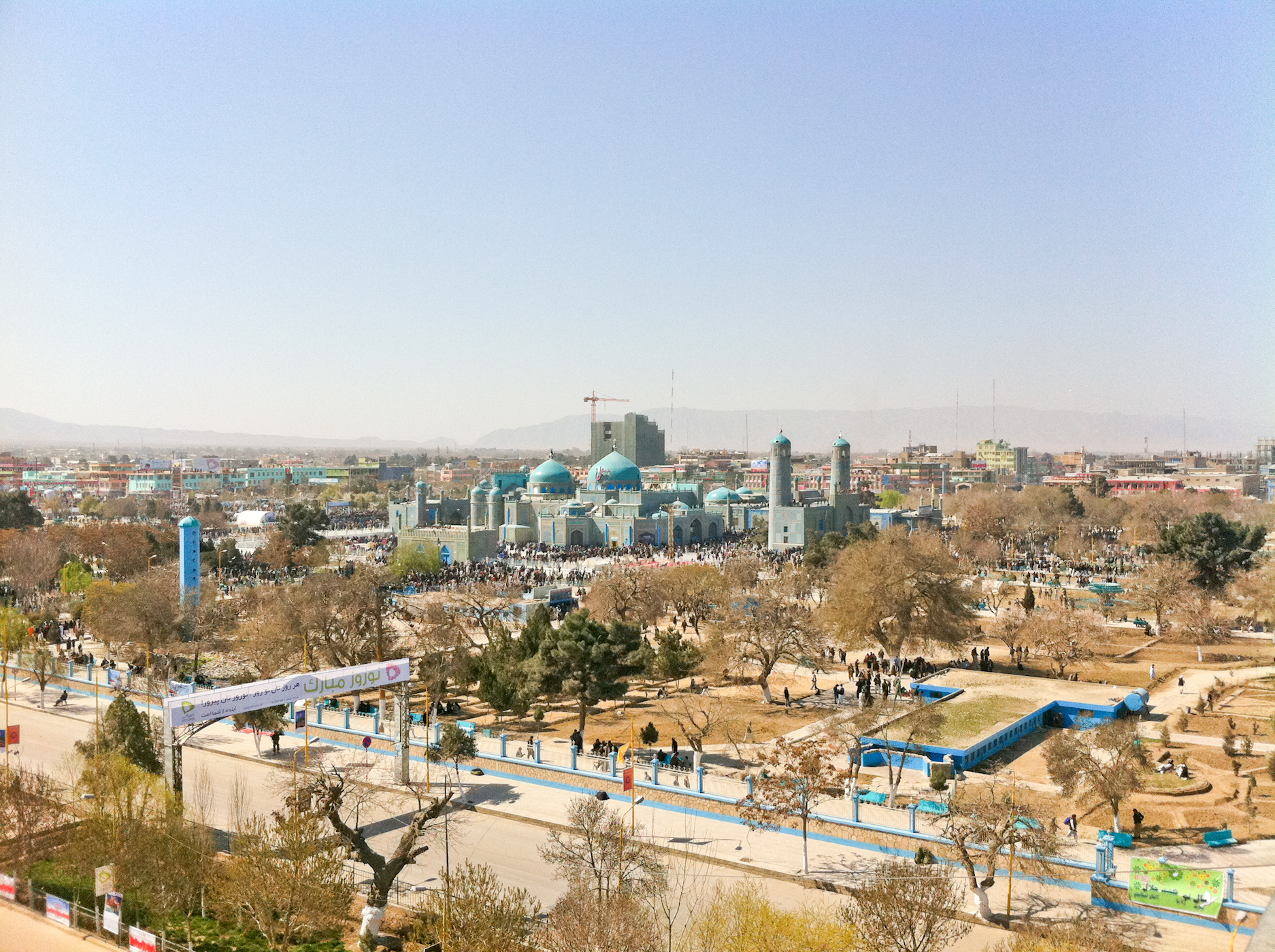 Nowruz or Newruz (meaning "New Day" of the Persian New year) celebration in Mazar-e Sharif, Afghanistan.